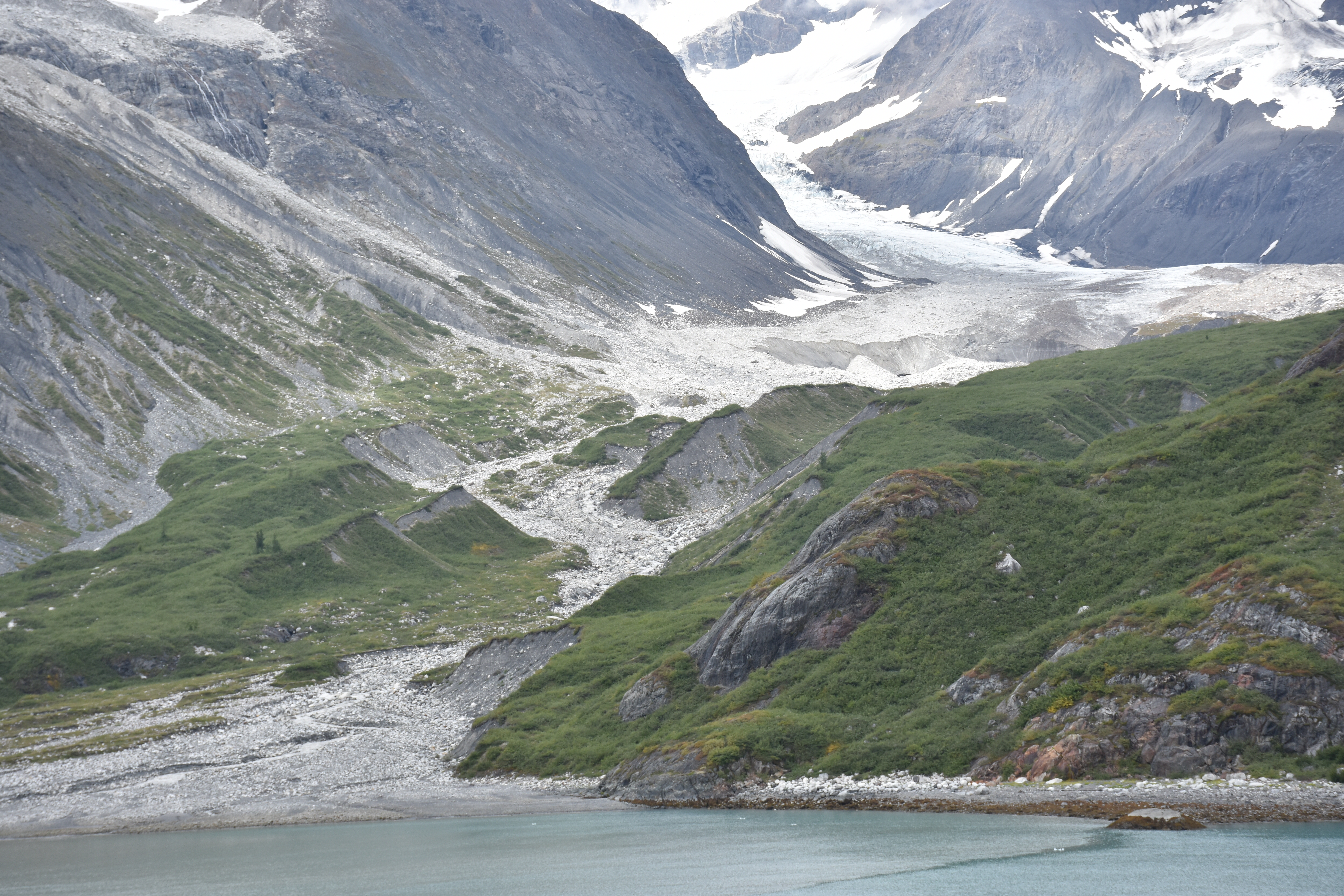 Views of Glacier Bay, Alaska, from a ship.